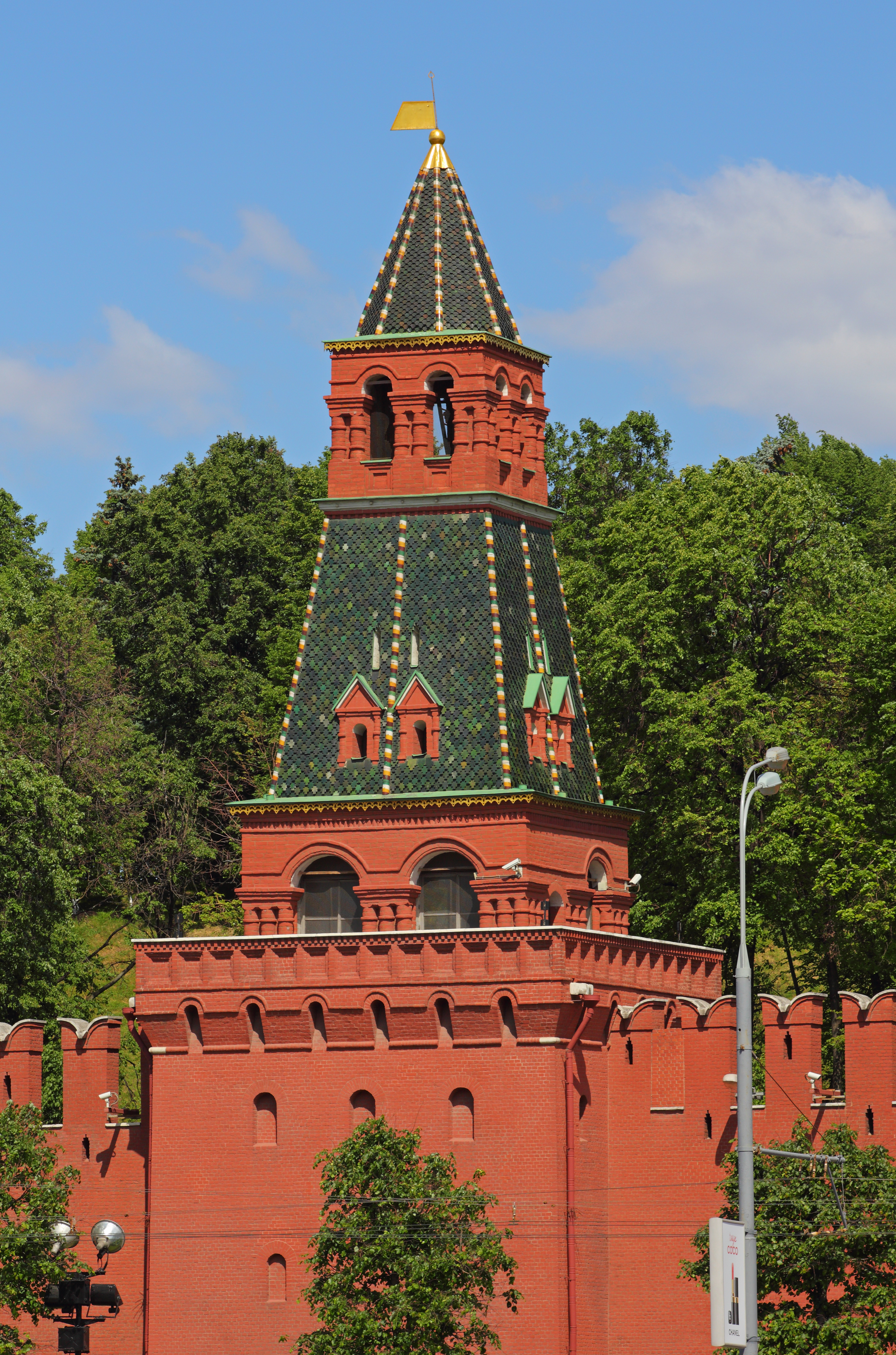 Moscow, Russia. Vtoraya Bezymyannaya (Second Nameless) Tower of the Moscow Kremlin.